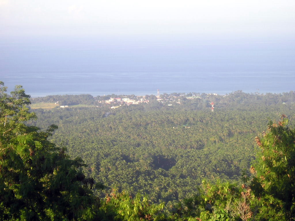 Mambajao, the capital town of the Philippines' second smallest province after Batanes, as seen from the PHILVOLCS Observatory Station near Mt. Hibok-Hibok. Olympus Camedia (SAKAHAN Visayas and Mindanao Consultative Workshops, November 2004). Slightly improved with Picasa.